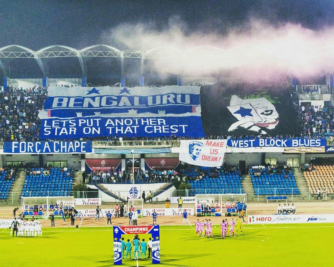 Banner unveiled by fans at Bengaluru FC vs Shillong Lajong on 7 January 2017.